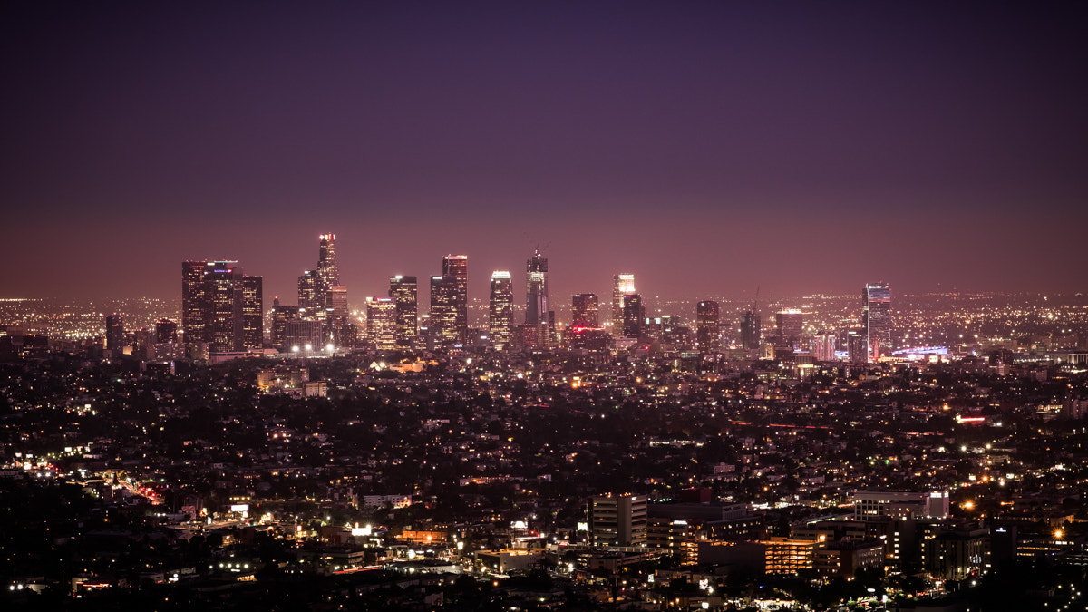 500px provided description: If you like my pictures please support me buying a print from my shop thanks! You can follow me on [#sky ,#landscape ,#city ,#sunset ,#downtown ,#night ,#sun ,#buildings ,#urban ,#architecture ,#cityscape ,#lights ,#photo ,#usa ,#fuji ,#photography ,#los angeles ,#landmark ,#united states ,#griffith ,#observatory ,#fujifilm ,#geotagged ,#skyscapers ,#xt10 ,#fujix ,#fujixt10 ,#fuji xt10]